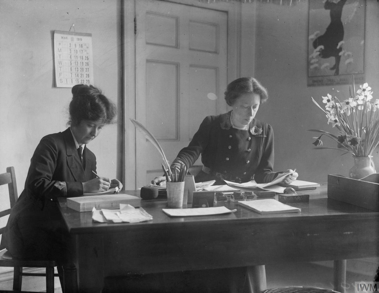 The Women's Royal Naval Service on the Home Front, 1917-1918 Miss Winifred Dakyns, the Assistant Director Administration, WRNS with her secretary Miss Manners.